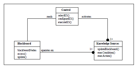 structure